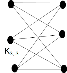 Nguyên lý 2